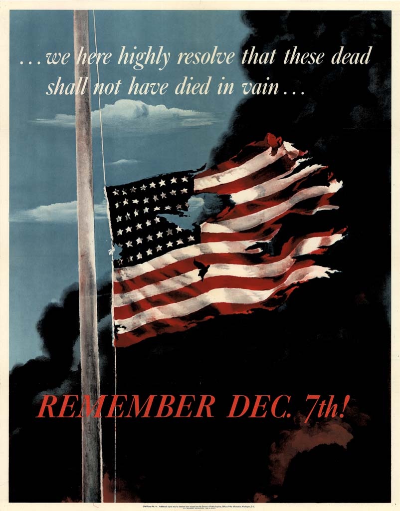 "Remember December 7th" US Government propaganda poster of 1942.